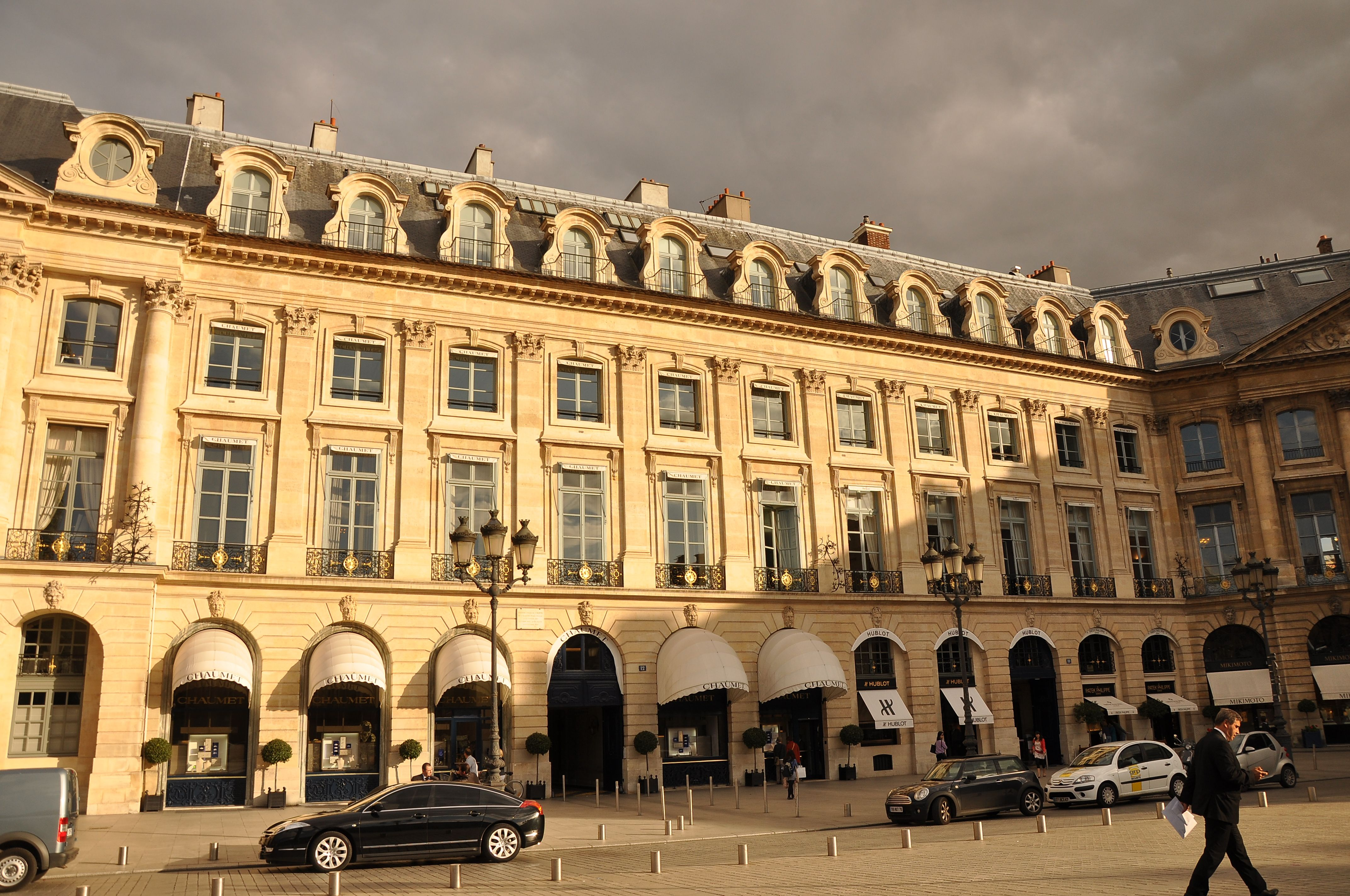 Hôtel Baudard de Saint-James at 12 place Vendôme in Paris, France. In this house is died at 1849 Frédéric Chopin the famous polish composer and pianist.